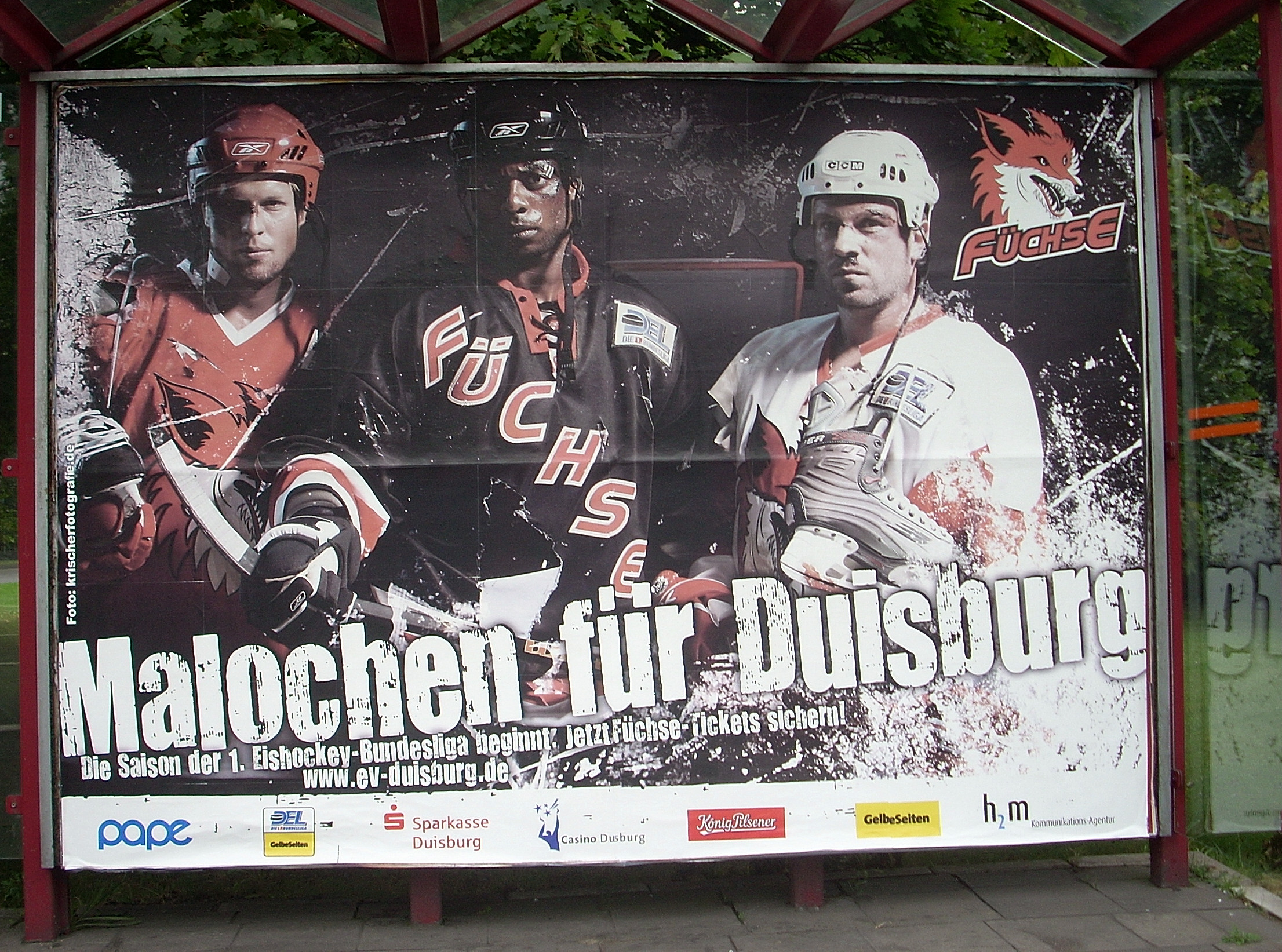 Advertising for the German Ice Hockey Club EV Duisburg